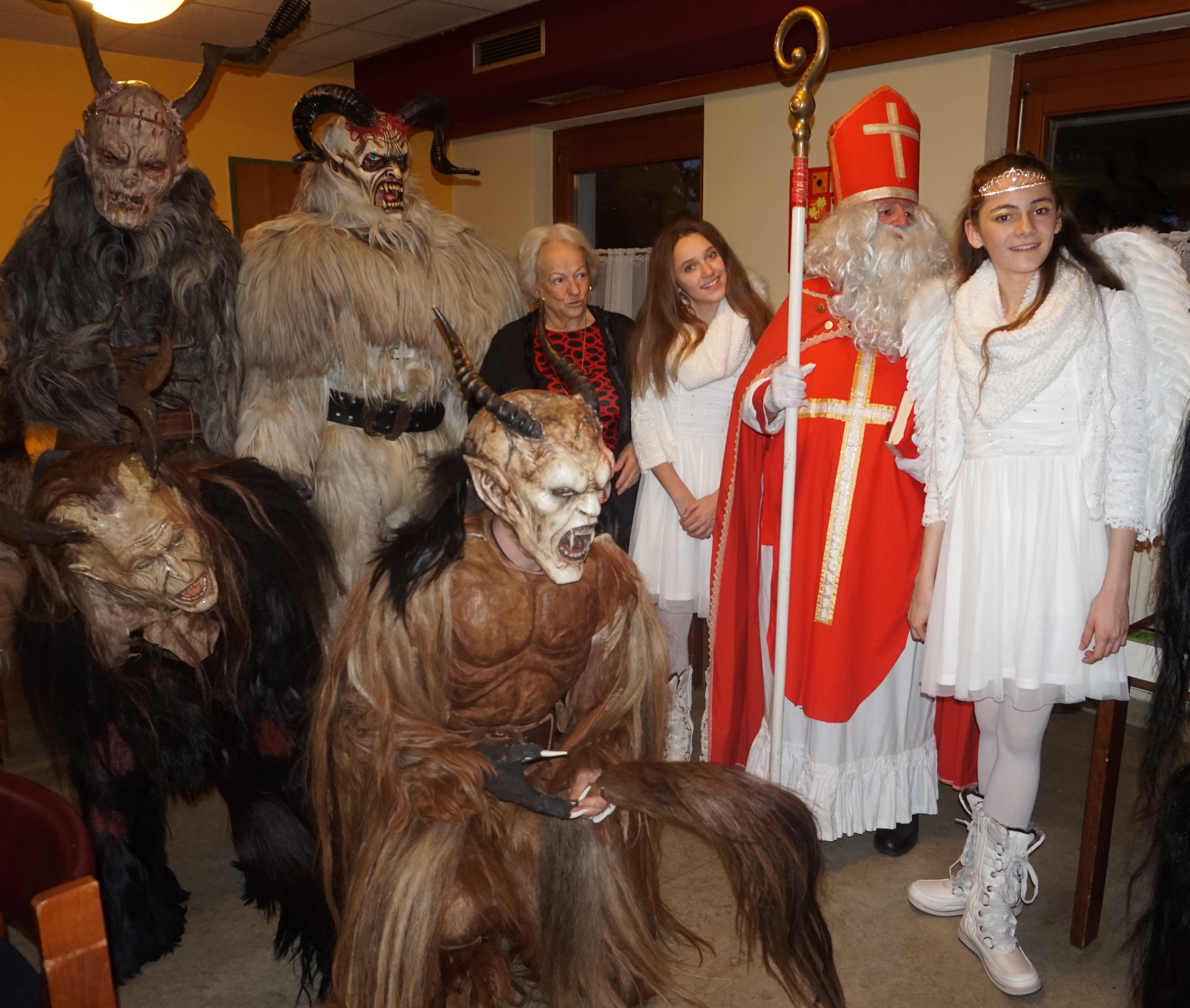 in certain alpine regions of Austria, in Carinthia devilish folklore figures turn up around 6 December and - in contrast to Saint Nicholas, who is accomponaid from angels - punishes badly behaved children